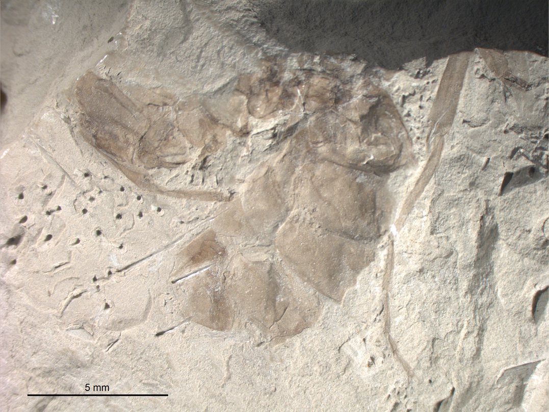 Profile view of the Cretopone magna holotype worker. Turonian, late Cretaceous; Beleutinskaya Formation; Kzyl-Zhar (or Kzyl-Dzhar), Kyzylorda Region, Shieli District, Southern Kazakhstan. Paleontological Institute, Moscow, Russia; specimen PIN3387-37